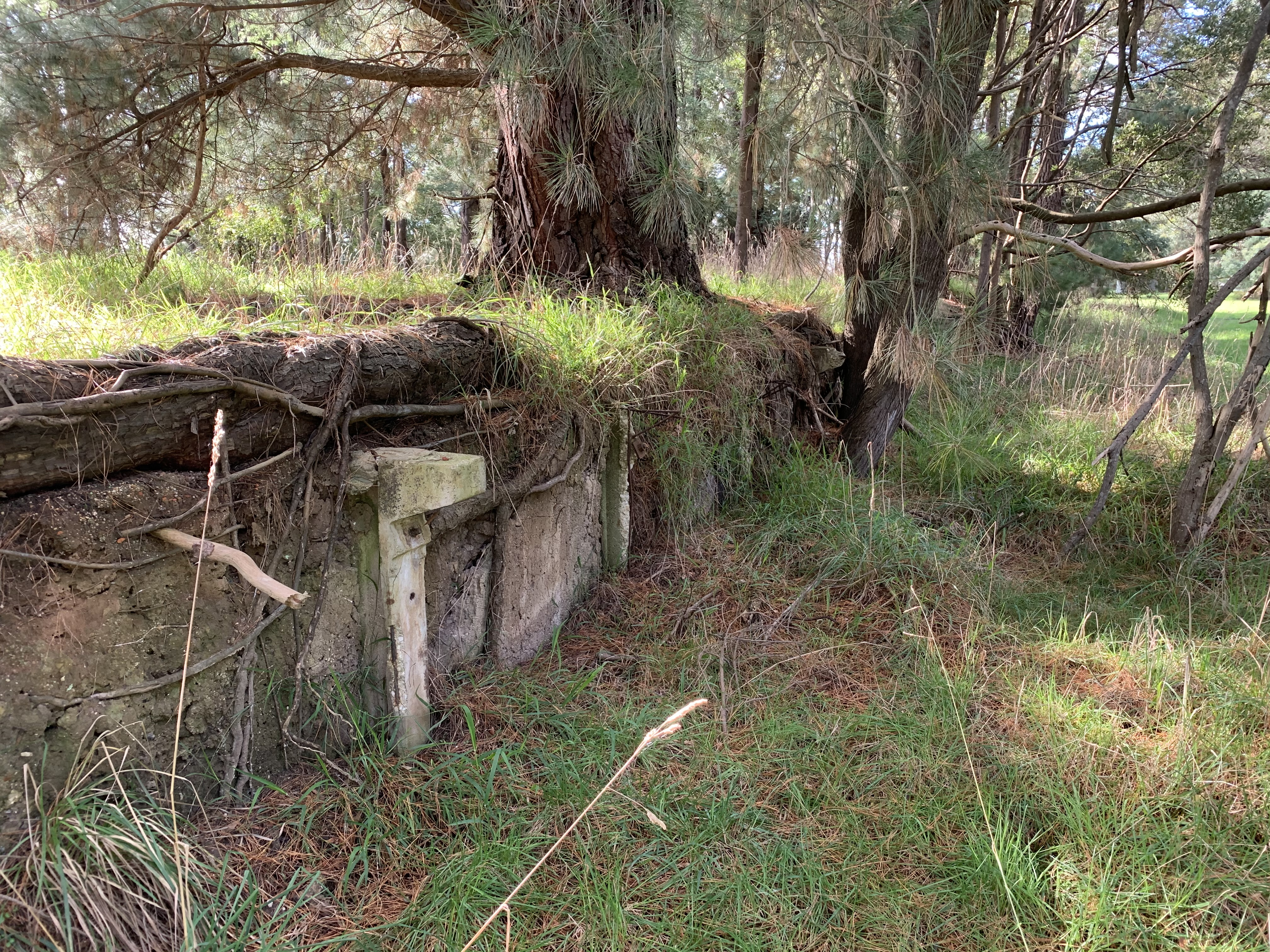 Remains of the Kernot Railway Station (2020) platform in Victoria, Australia